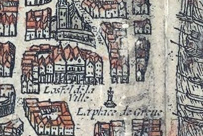 Place de Grève et hôtel de ville de Paris on the plan of Braun and Hogenberg (c.1530, published in 1572, edition of 1593).